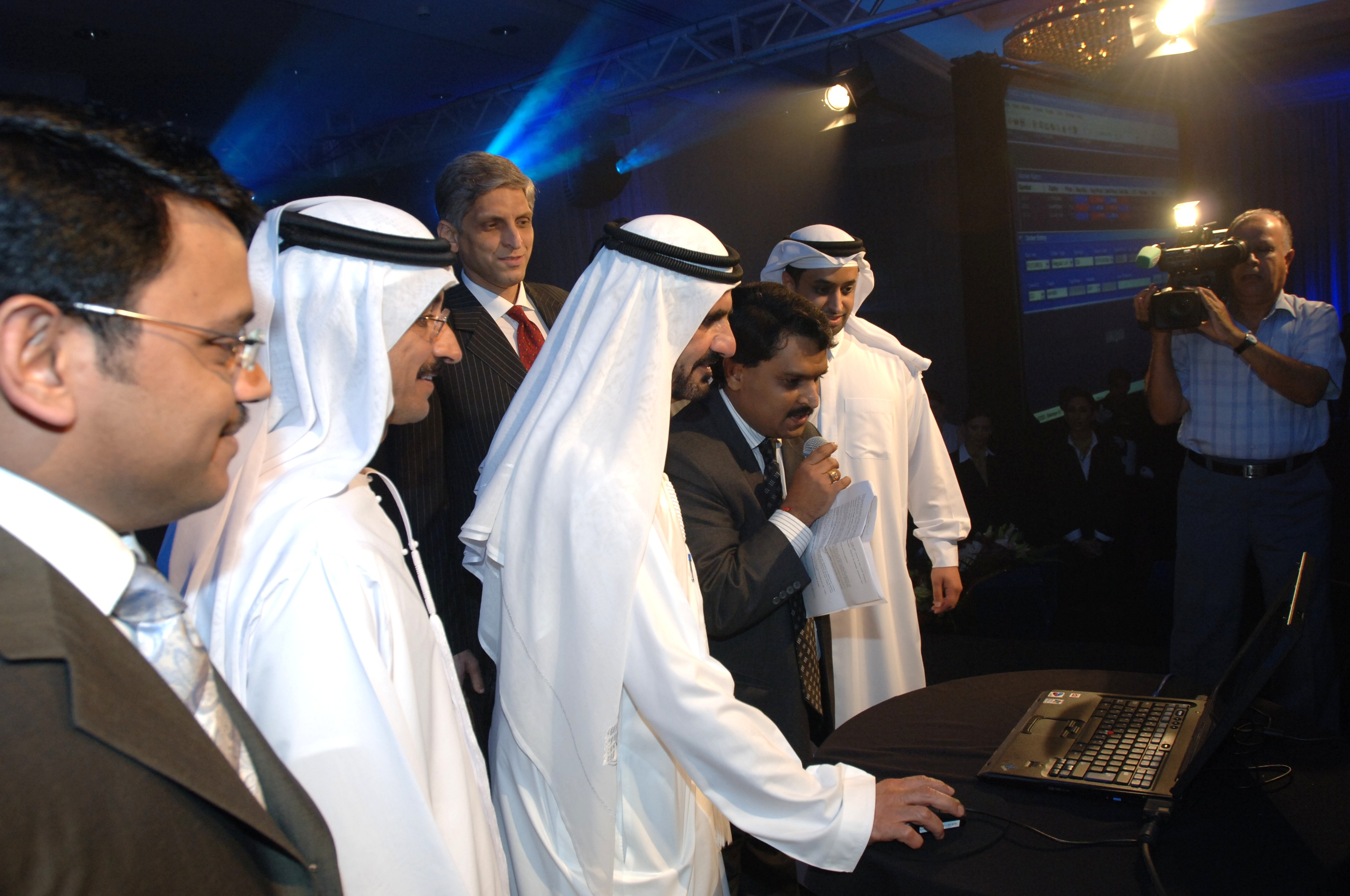 Ahmed Sultan Bin Sulayem during DGCX Launch with Mohammed bin Rashid Al Maktoum